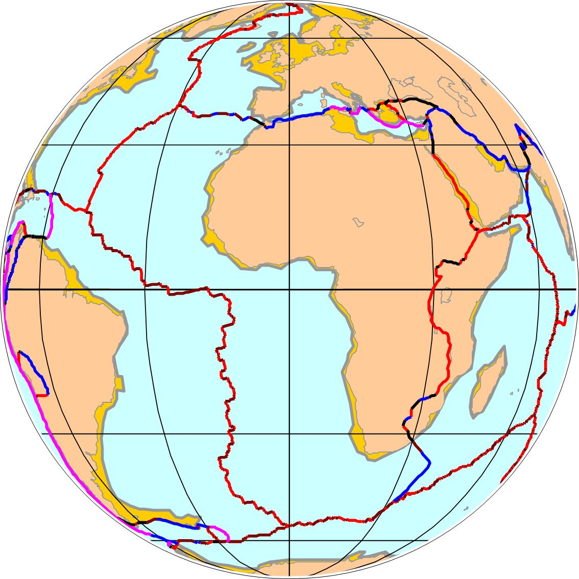 African tectonic plate. Orthogonal projection (as seen from deep space).